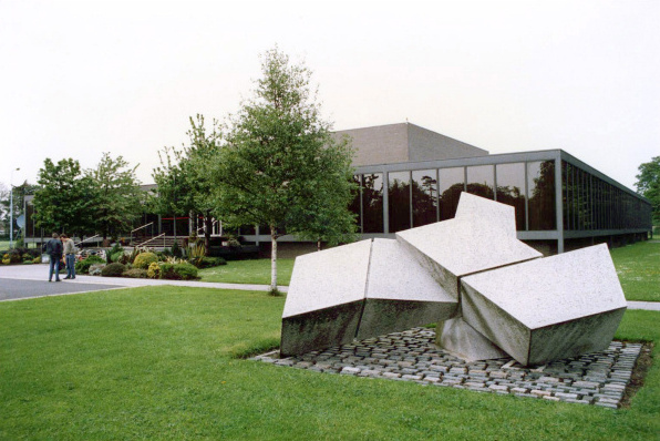 The RTE Radio Centre building taken on 15th March 1985